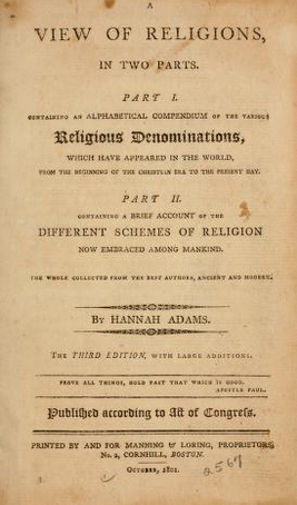 A View of Religions (Third edition, 1801)